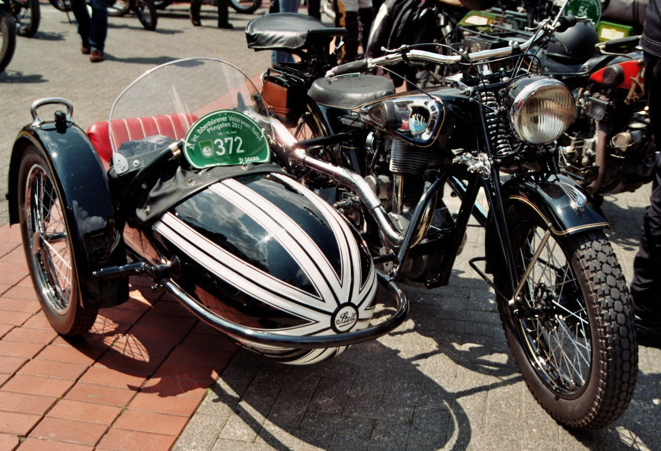 31st International Ibbenbüren Vintage Motorcycle Rally including Münsterland Trophy in Ibbenbüren, Kreis Steinfurt, North Rhine-Westphalia, Germany. A NSU 601 shown at the public presentation at the New Market (Neumarkt).